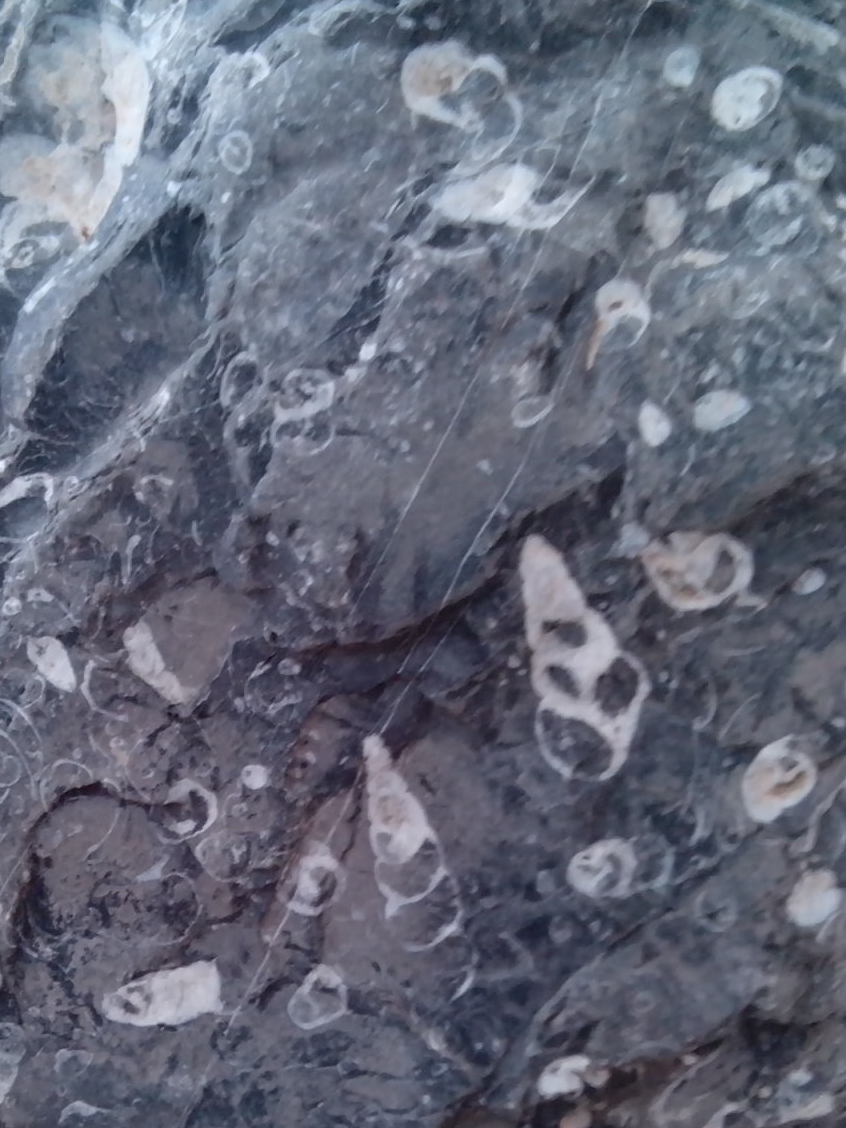 Fossiles